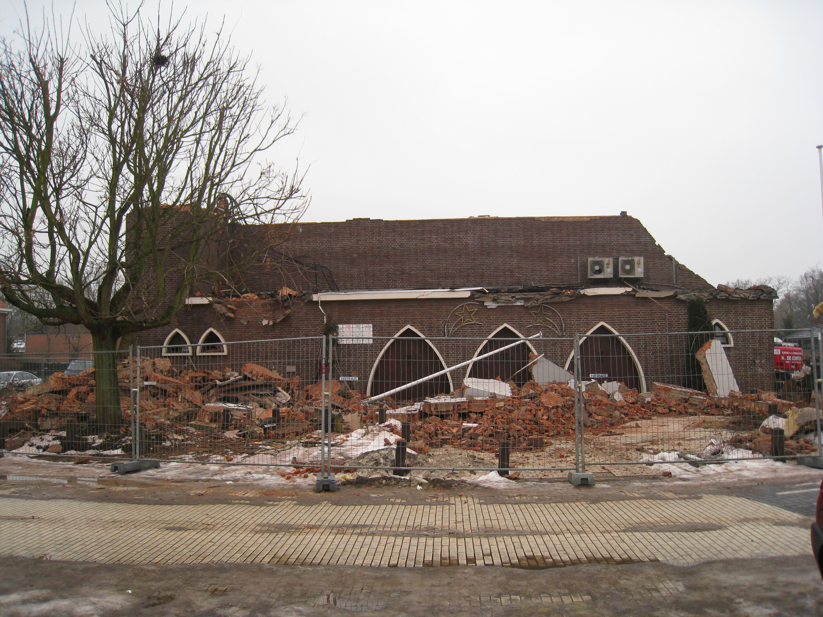 Church, Lutselus, Diepenbeek, Belgium